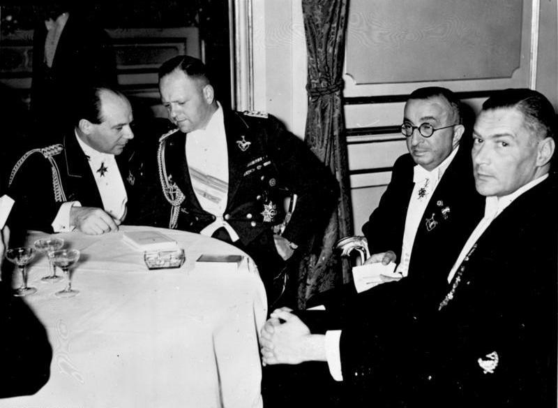 Gentleman evening at the Lilienthal company in potsdam